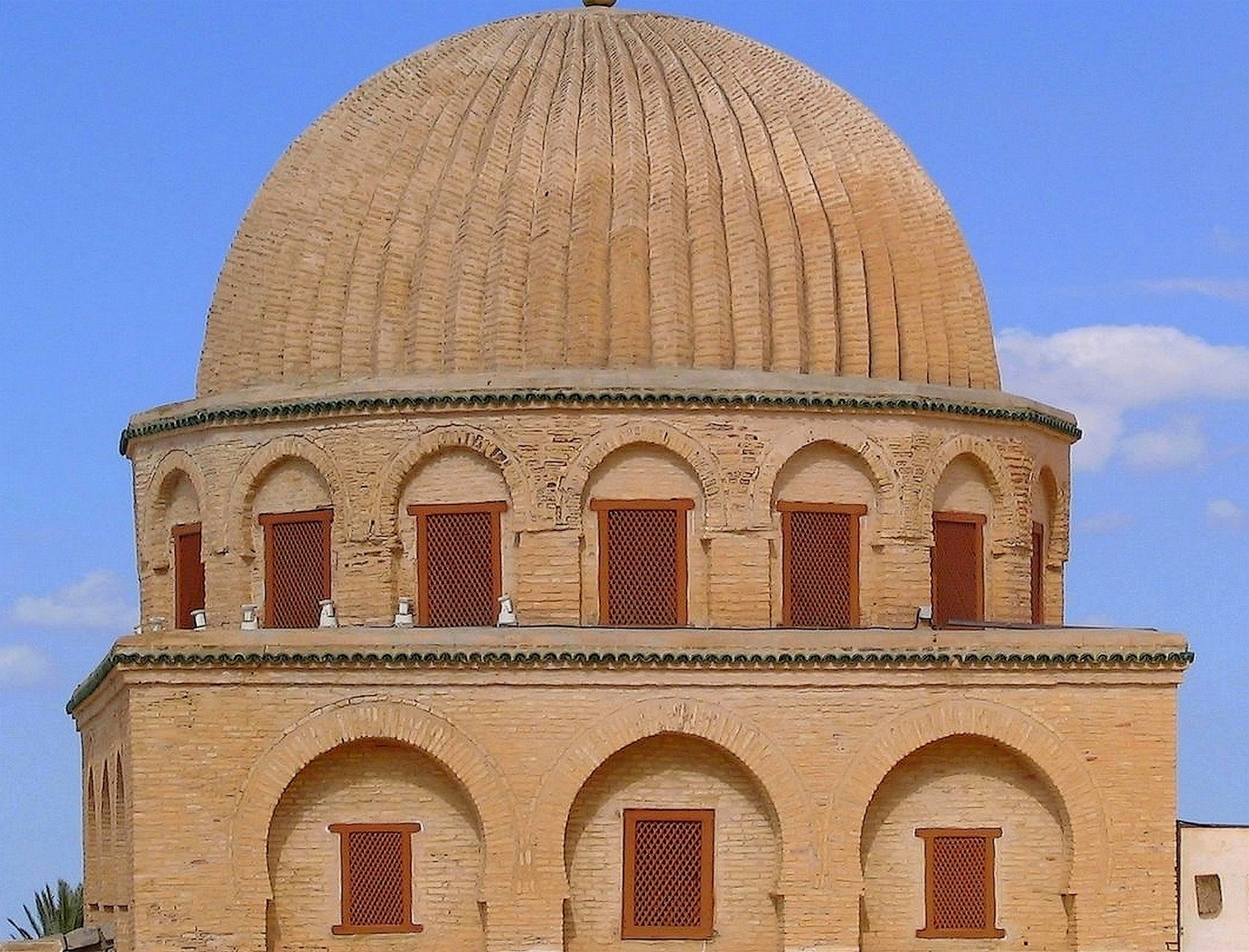 Ribbed dome with hexadecagonal drum in the Great Mosque of Kairouan, in Tunisia. The drum rests on a square base.